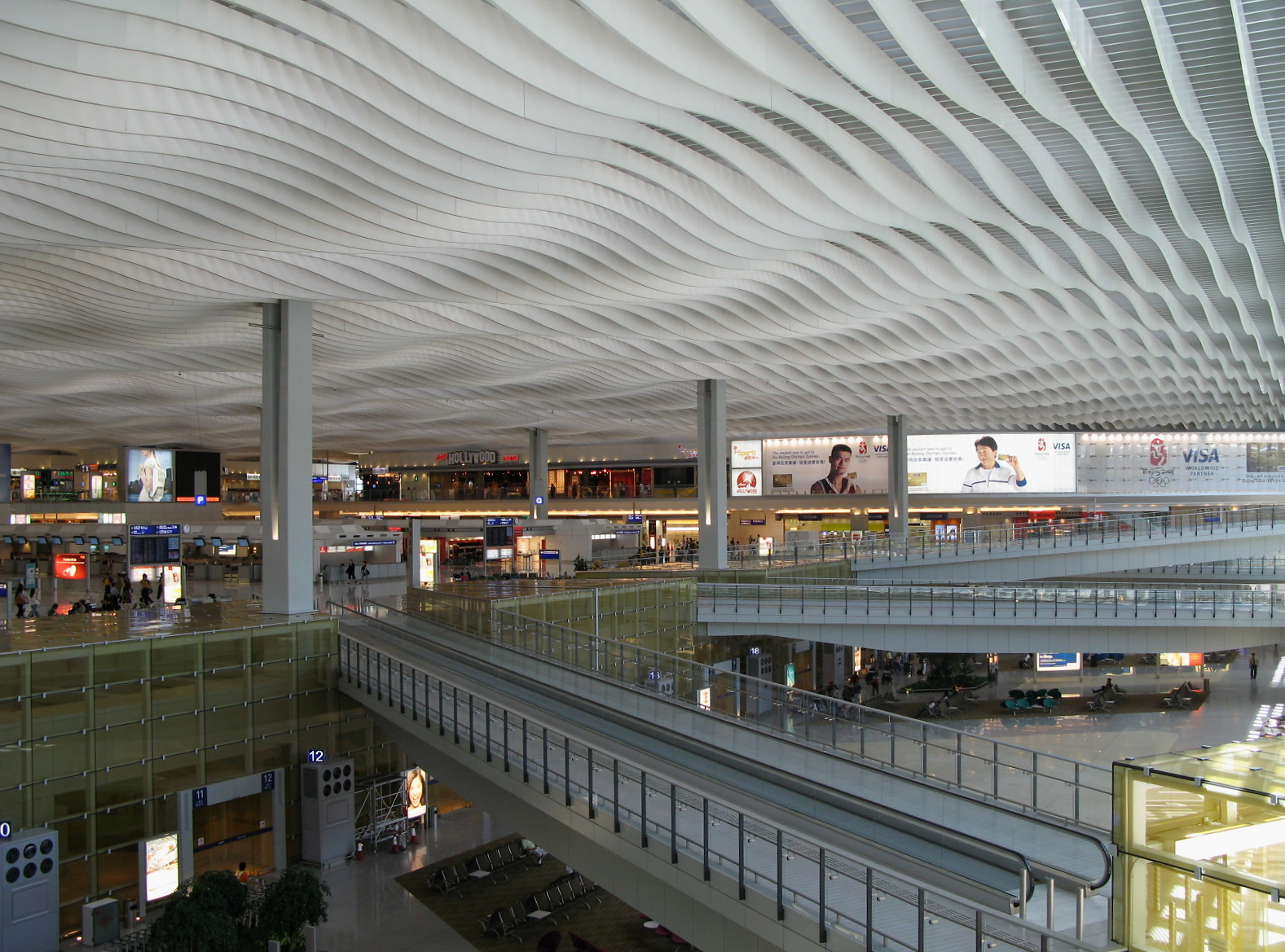 Hong Kong International Airport Sky Plaza